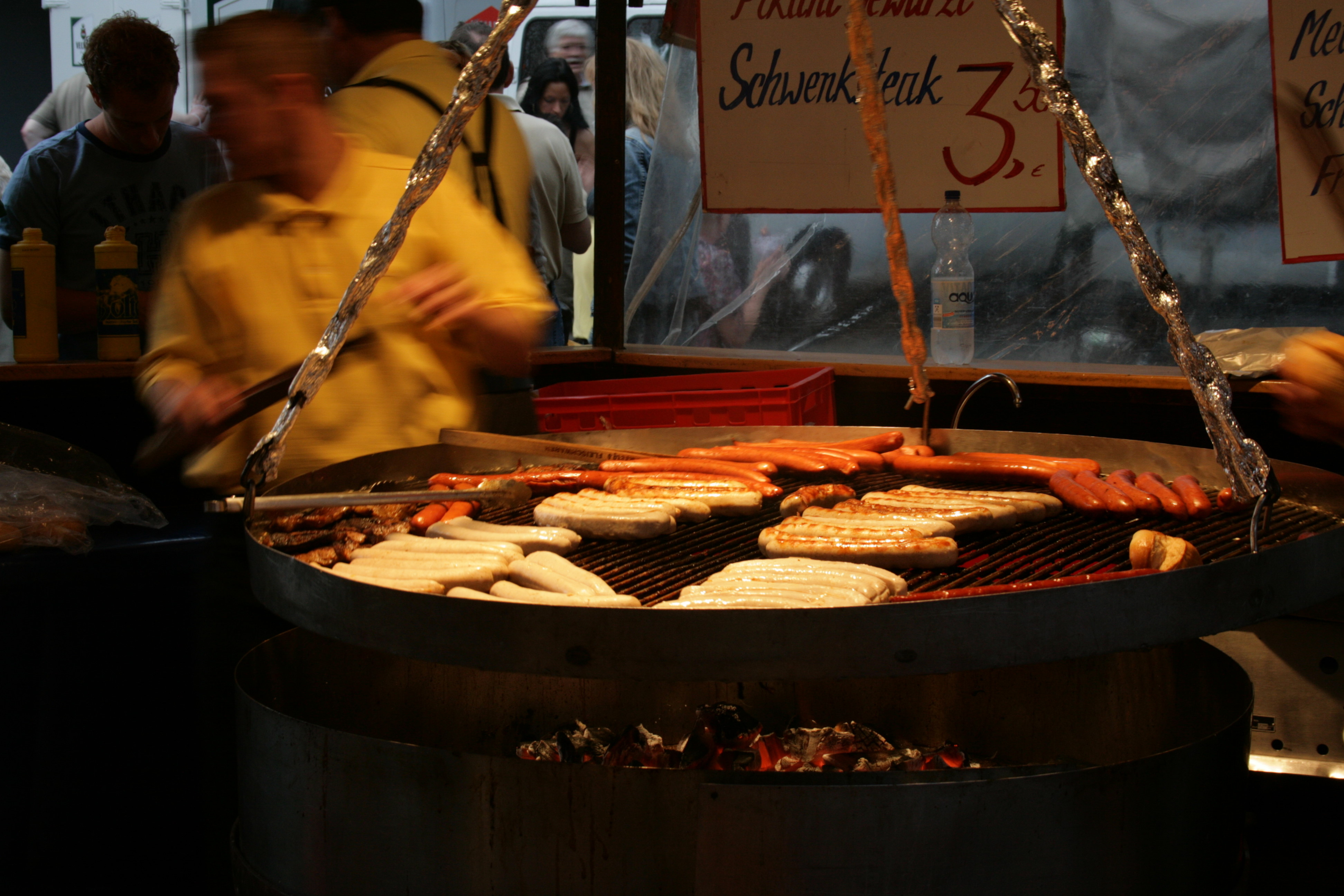 Langer Tisch (en: long table), a 14 km long street fair in Wuppertal celebrating Wuppertal's 80th “birthday” in 2009